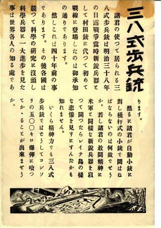 This propaganda leaflet was dropped to Japanese military in Philippine by US Armed Forces. "Type 38 rifle".